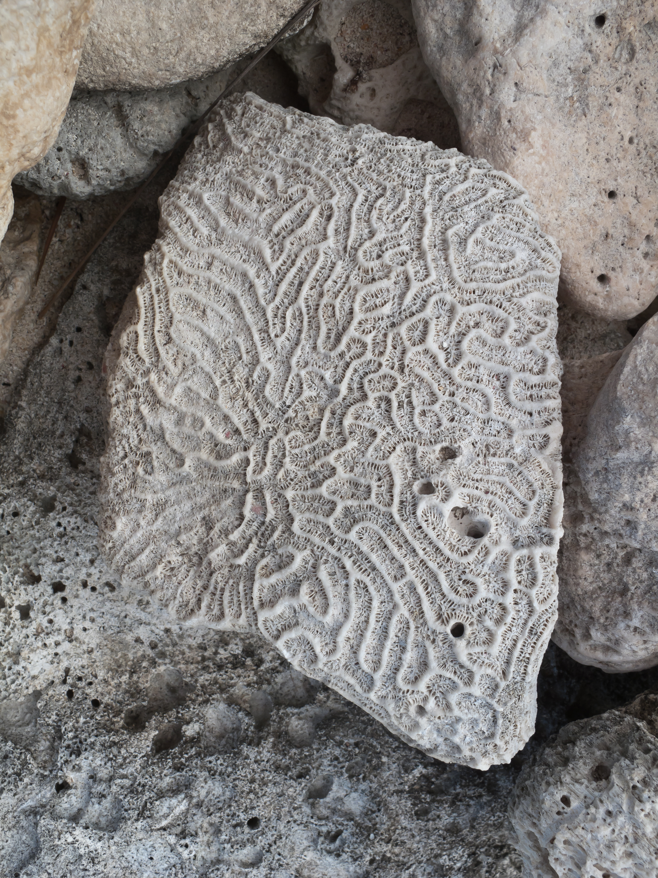 Mesoamerican Barrier Reef. Beach of the Hotel Bay Prince, Quintana Roo, Mexico